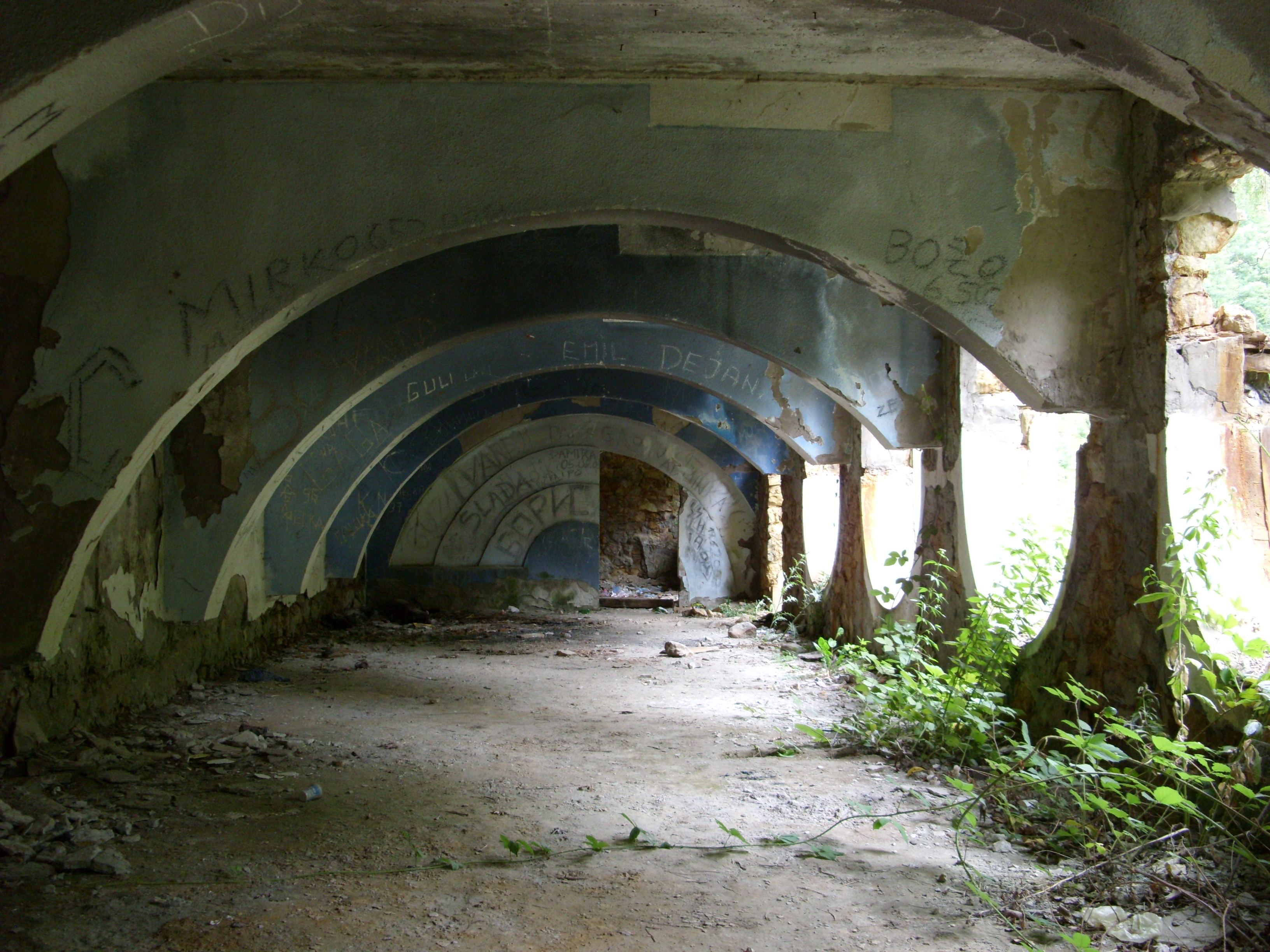 Ruins of Crni Guber near Srebrenica, East Bosnia. Hornjoserbsce: Rozwaliny "Čorneho Gubera" pola Srebrenicy, Wuchodna Bosniska.